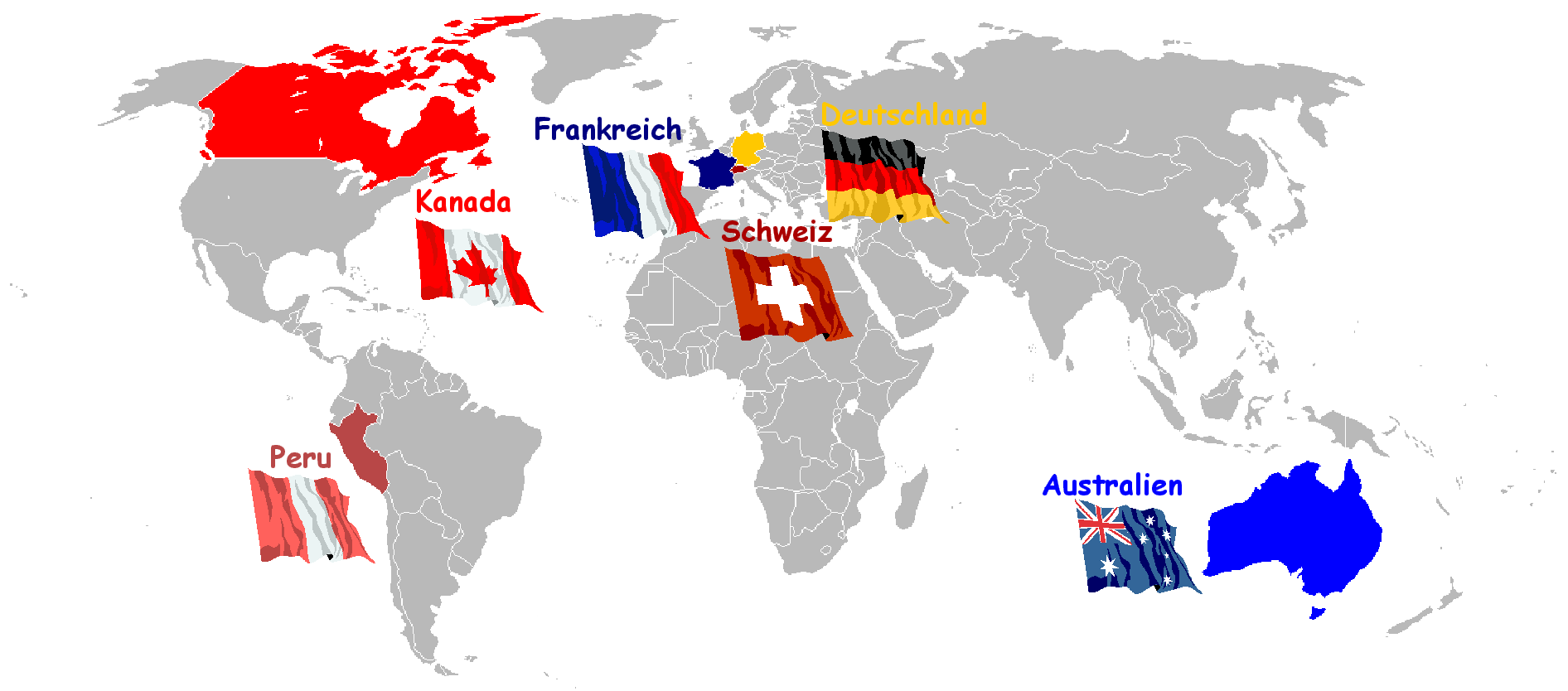 The six original candidates for the 2011 Women's Soccer World Cup. (Switzerland, France, Australia und Peru withdrew later – World Cup is to be held in Germany) – Note: Map is in german language!